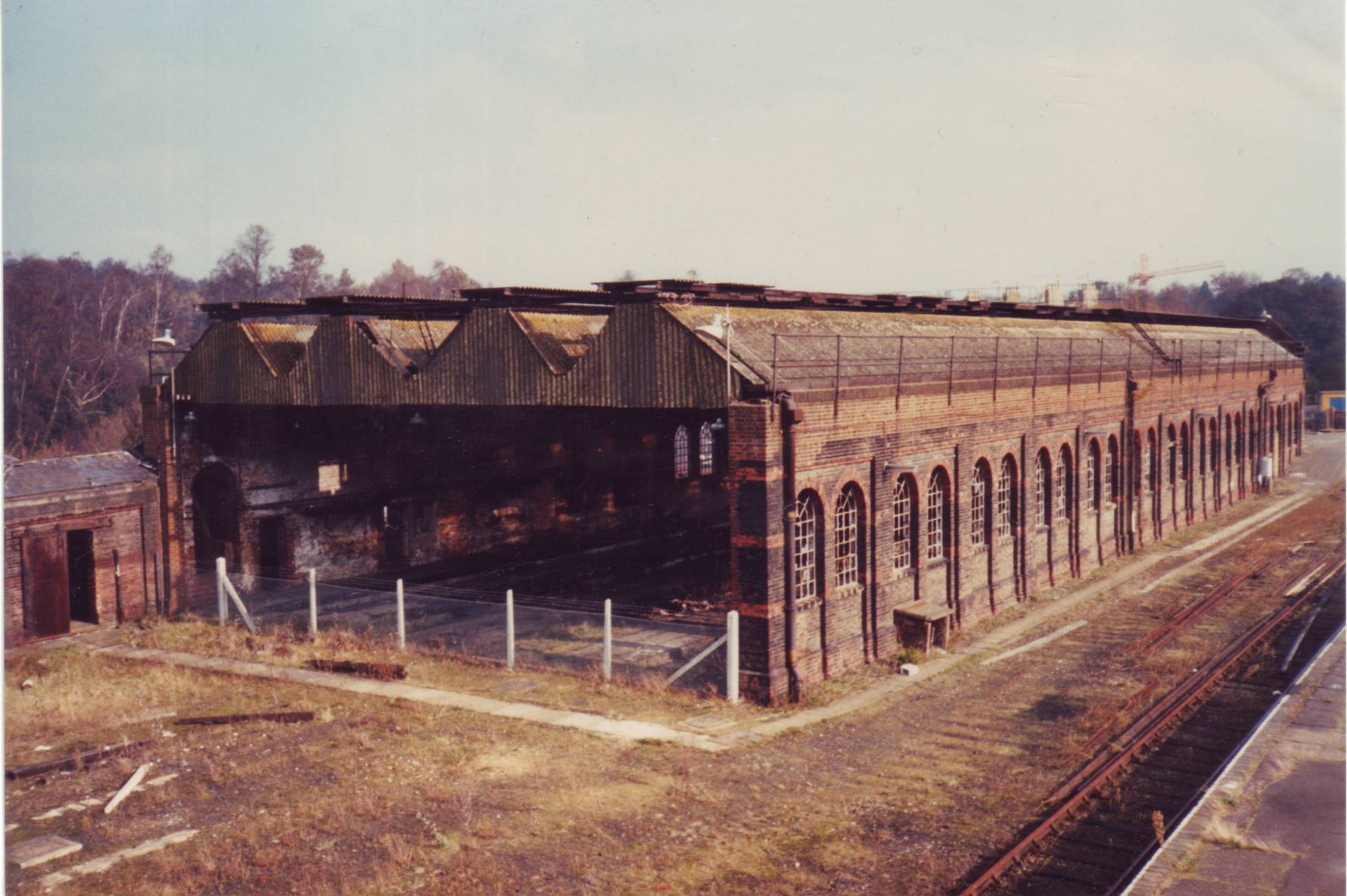 Former engine shed at Tunbridge Wells West, Kent